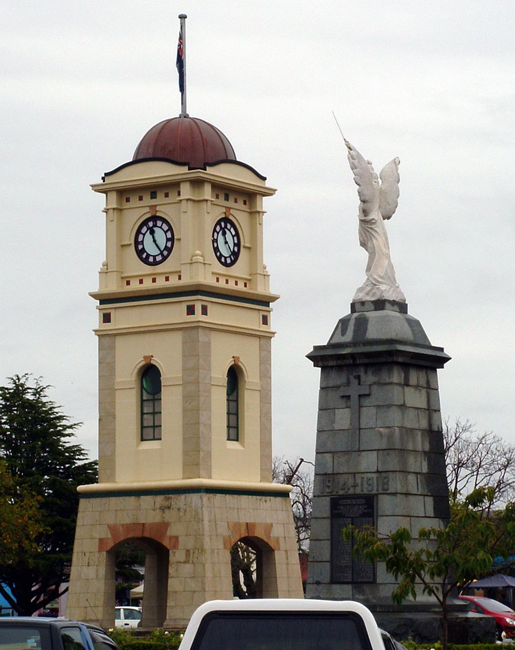 Manchester Square, Feilding, New Zealand